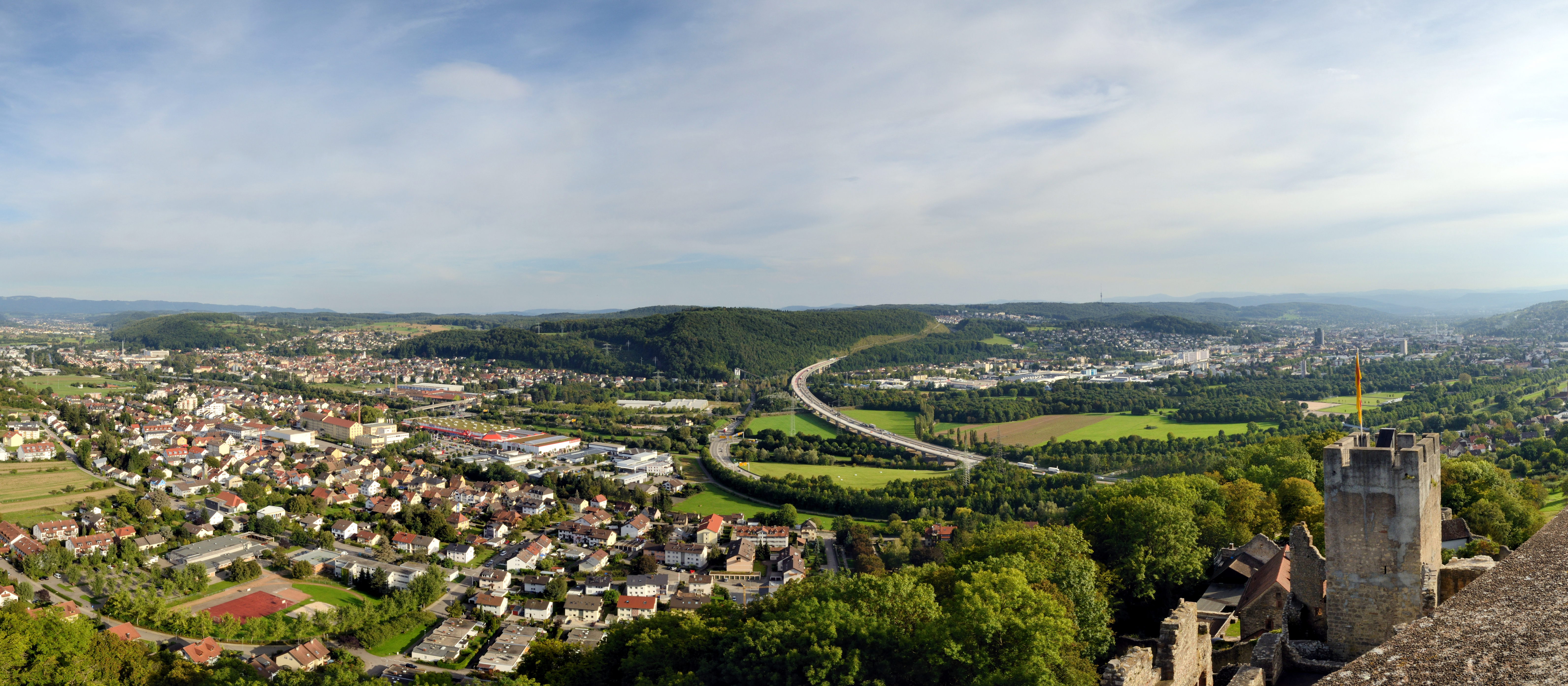 Panoramic view from Rötteln Castle